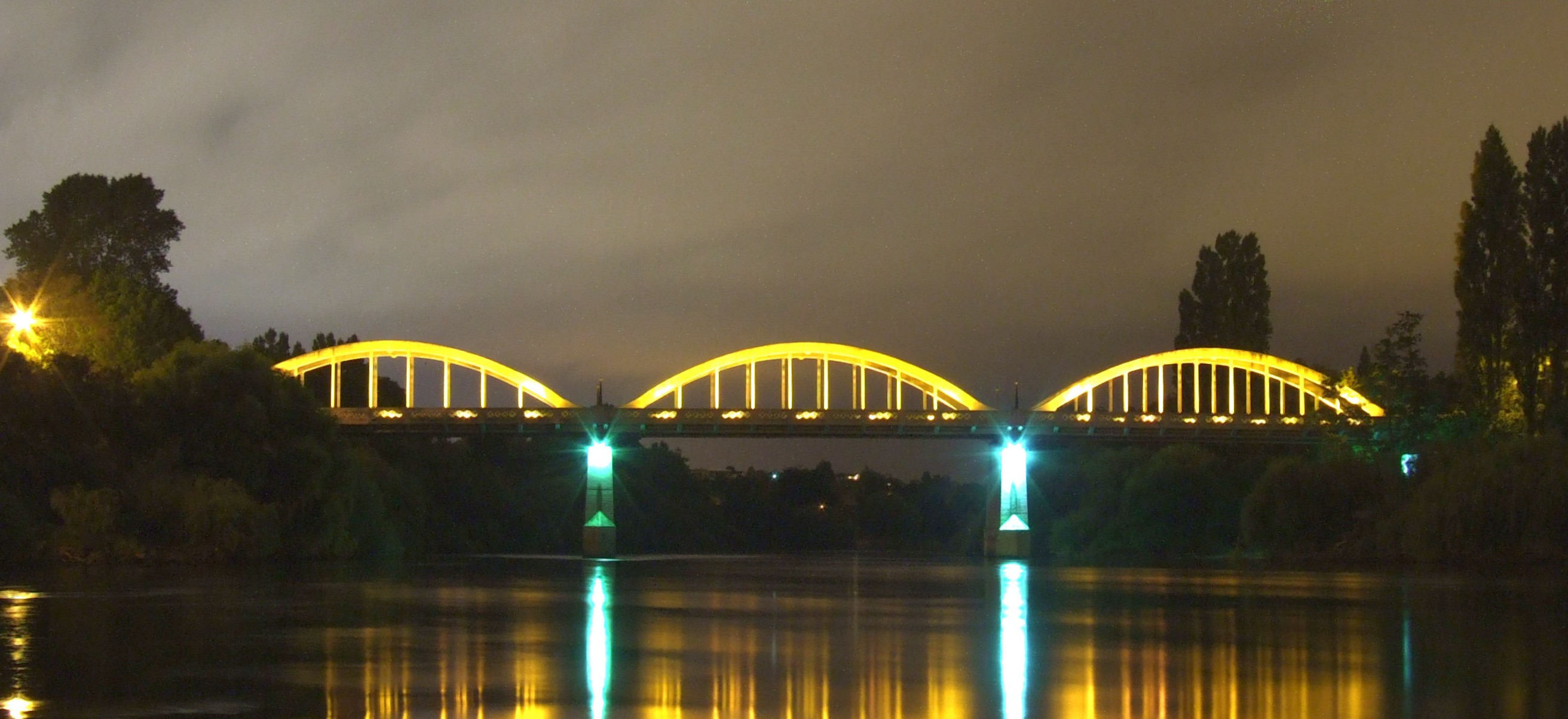 Fairfield Bridge at night time